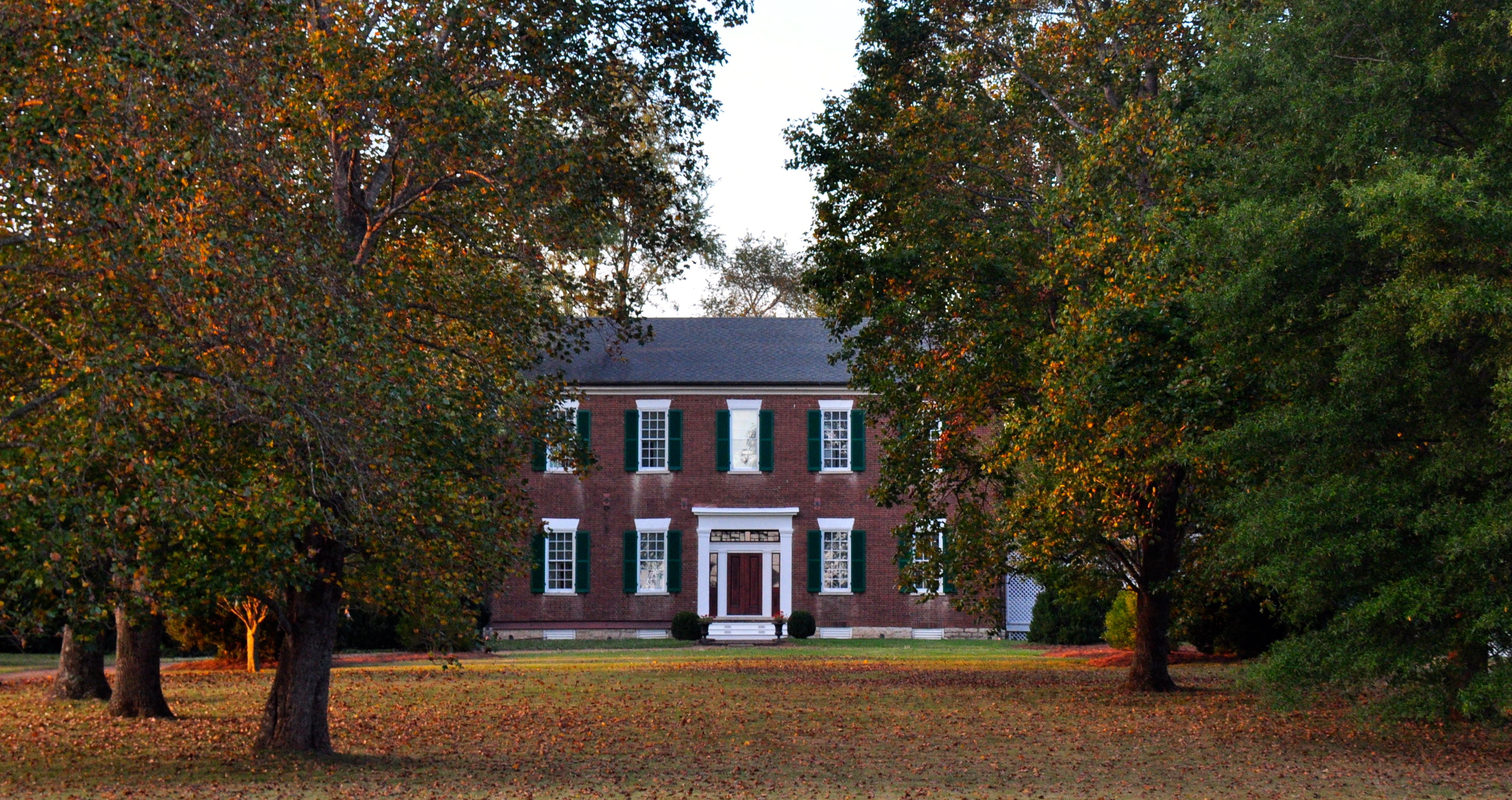 Meeting-of-the-Waters, Northwest of Franklin on Del Rio Pike Franklin